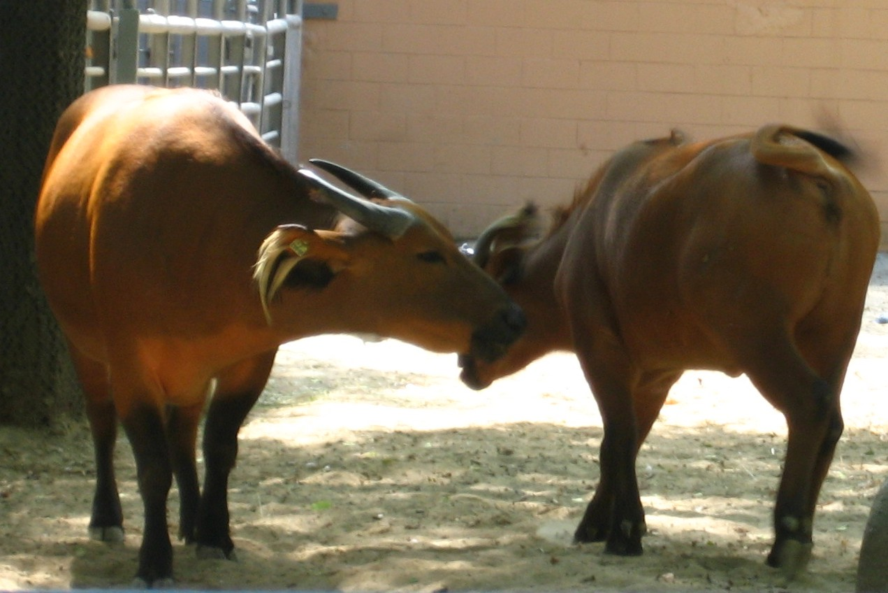 Syncerys caffer nanus at Barcelona Zoo